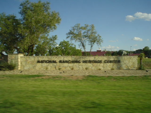 The front entrance of the National Ranching Heritage Center at Texas Tech University in Lubbock, Texas.